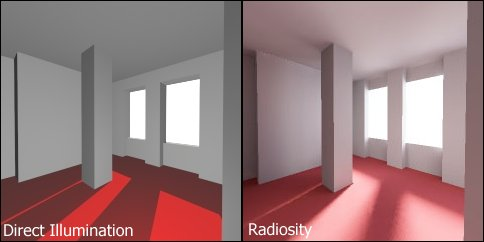 Comparison of Radiosity with Direct Illumiation